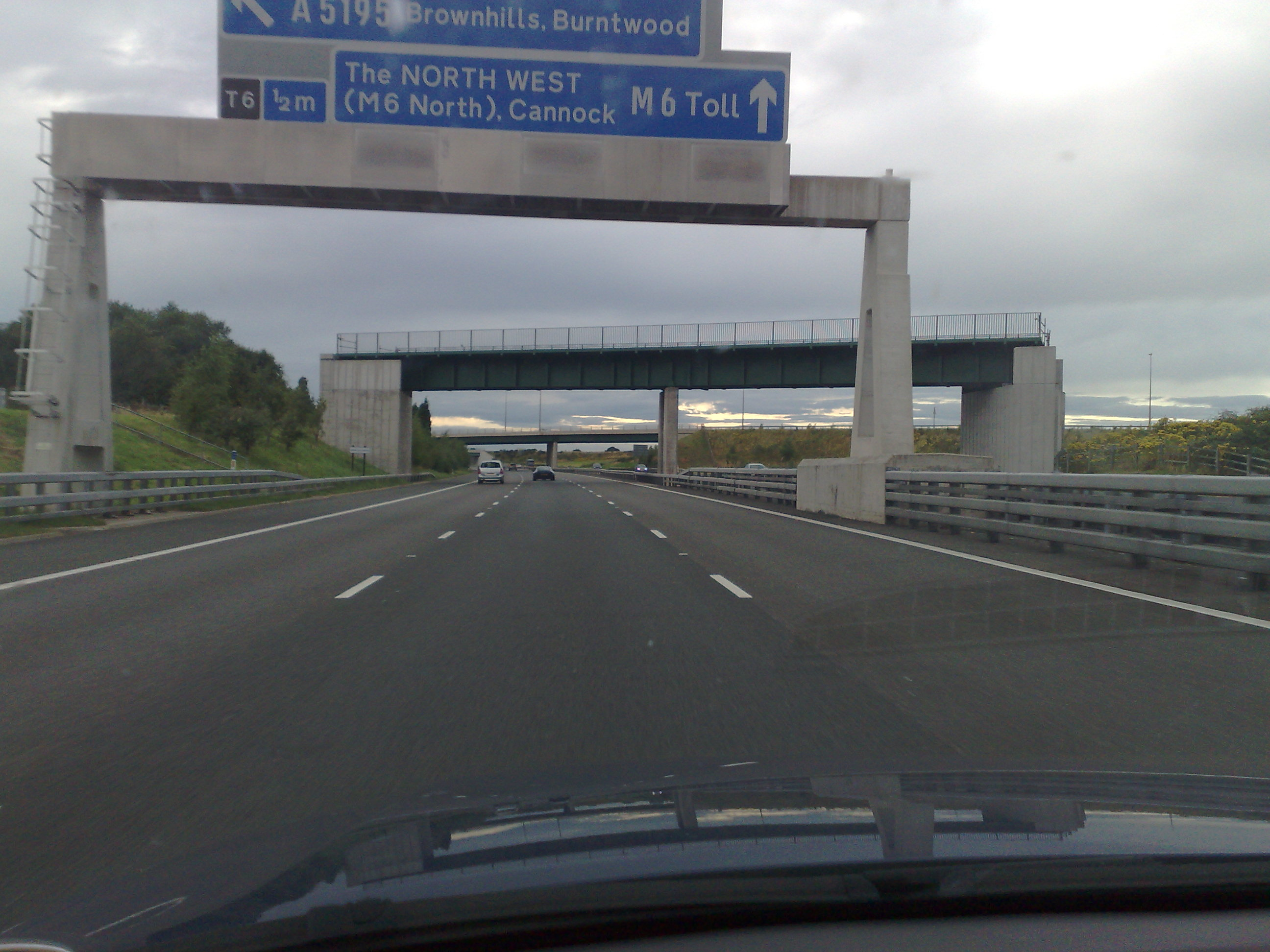 The aqueduct for the Lichfield Canal across the M6 Toll Road, viewed from the northbound carriageway.